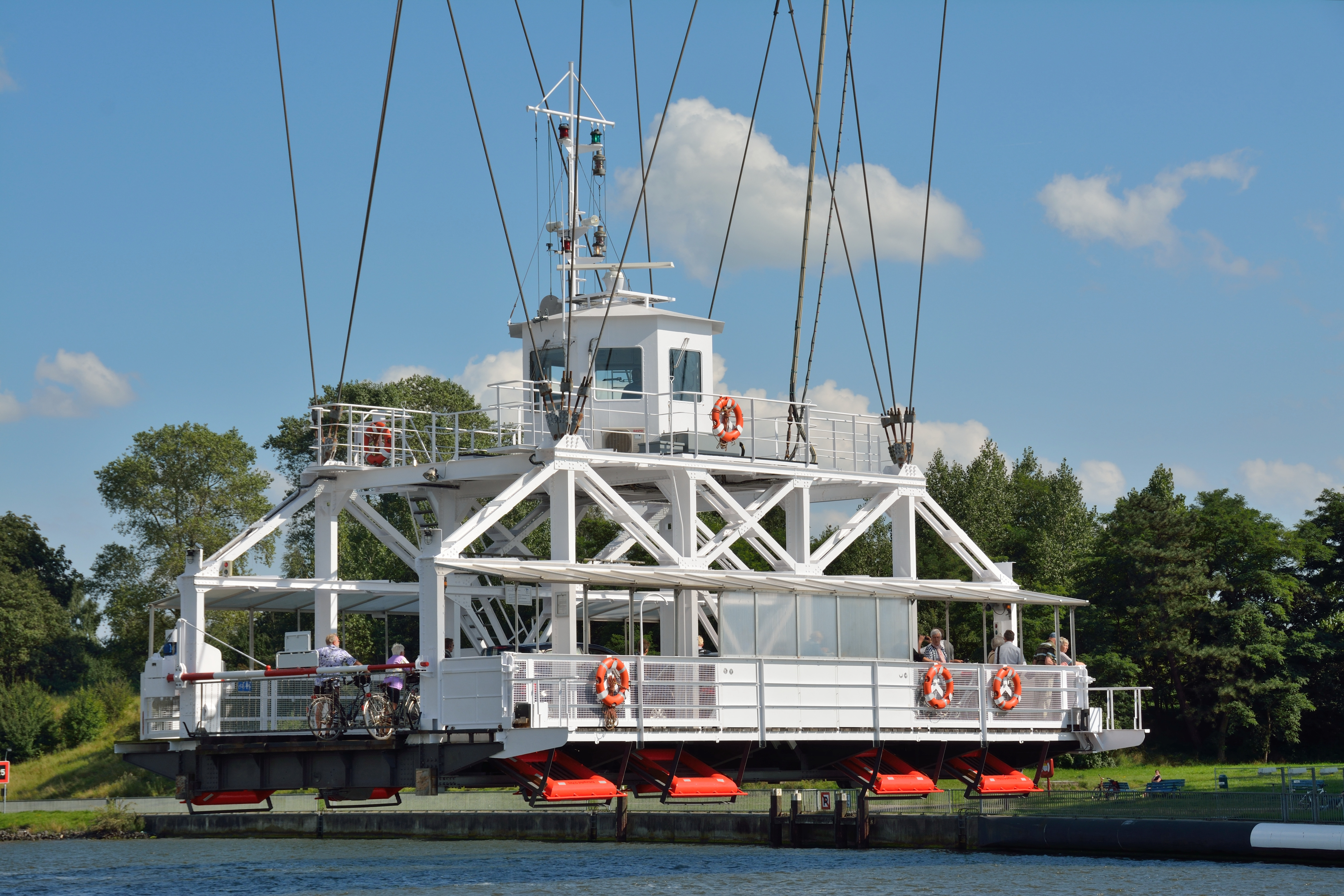 The ferry was destroyed in an accident. There will be a new building .